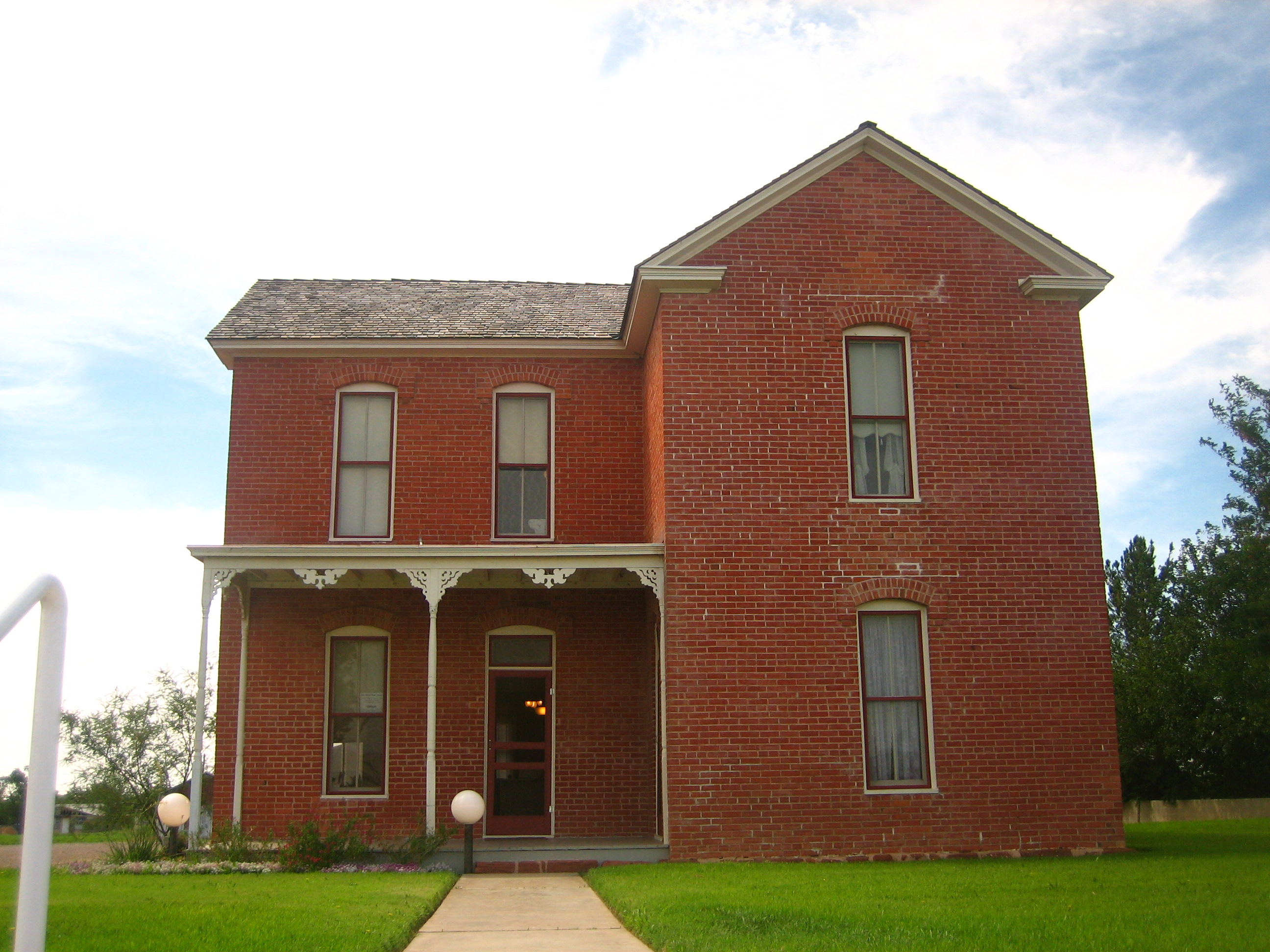 White-Pool House in Odessa, TX I took photo in July 2008.Billy Hathorn (talk) 03:32, 2 July 2009 (UTC)